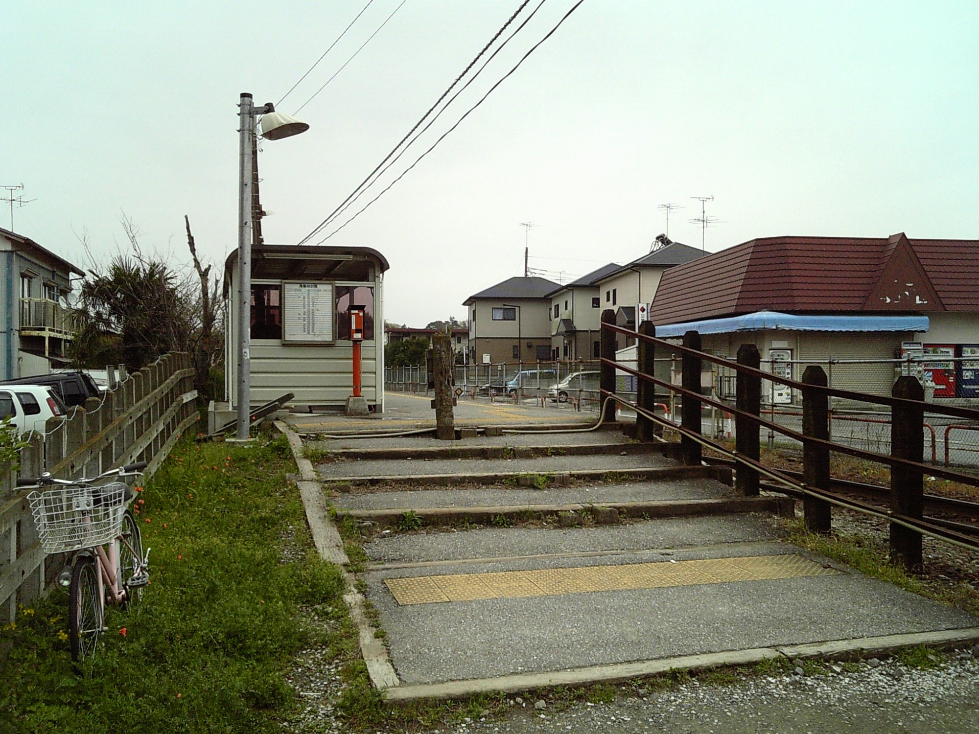 JR East Kazusa-Kiyokawa station entrance.